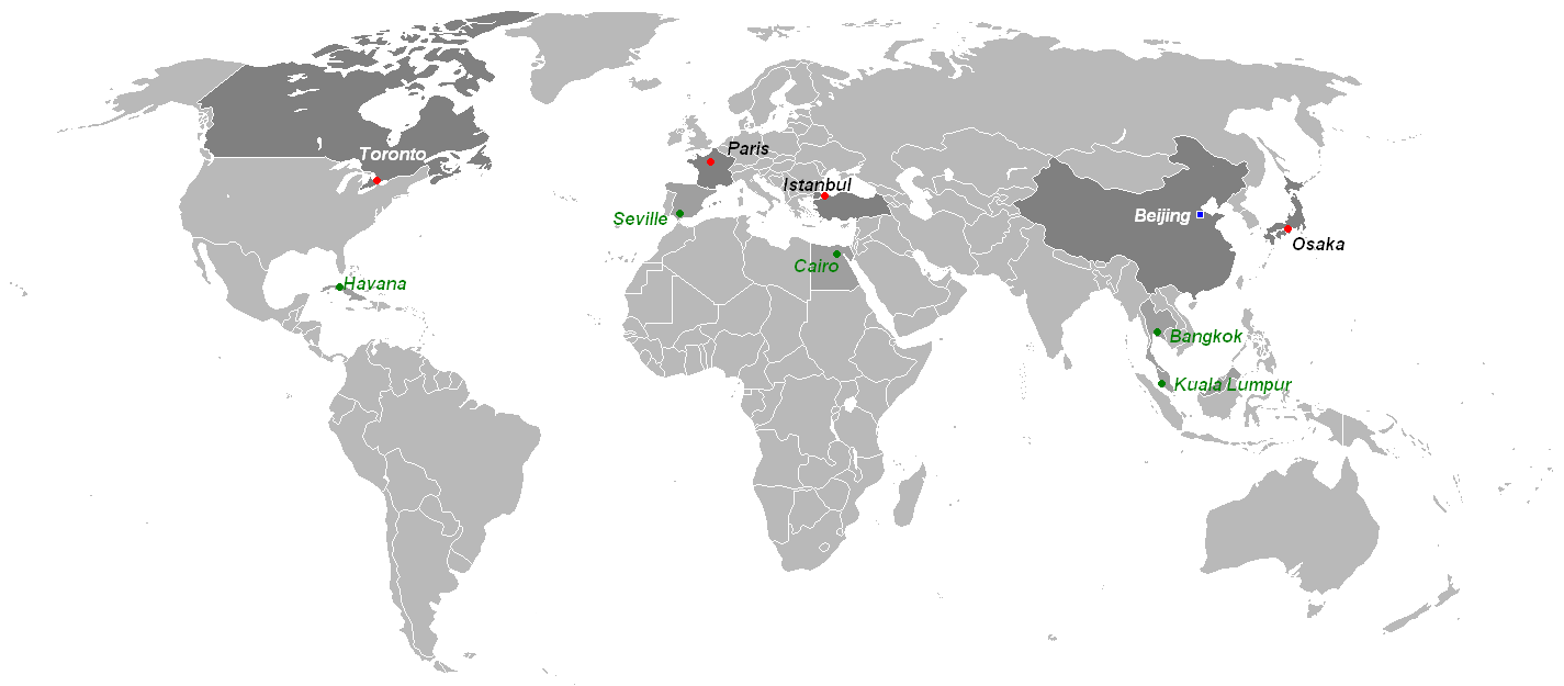 The candidate cities to host the 2012 Summer Olympics, derived from blank world map. Green : Applicant cities Black: Candidate cities